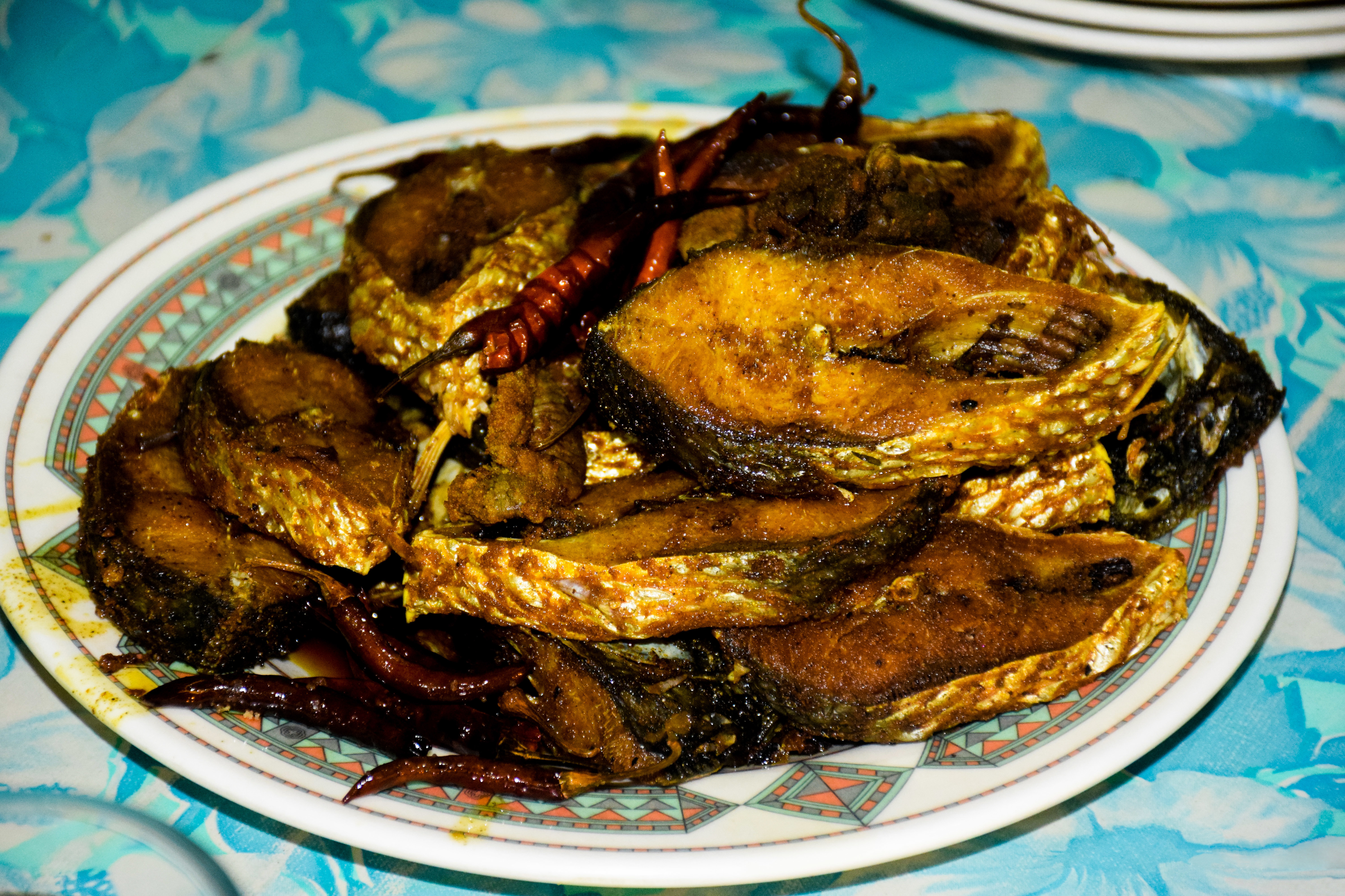 Ilisha From Padma River